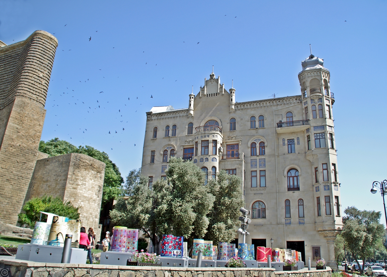 Architecture of Baku - "Hadjinsky House"